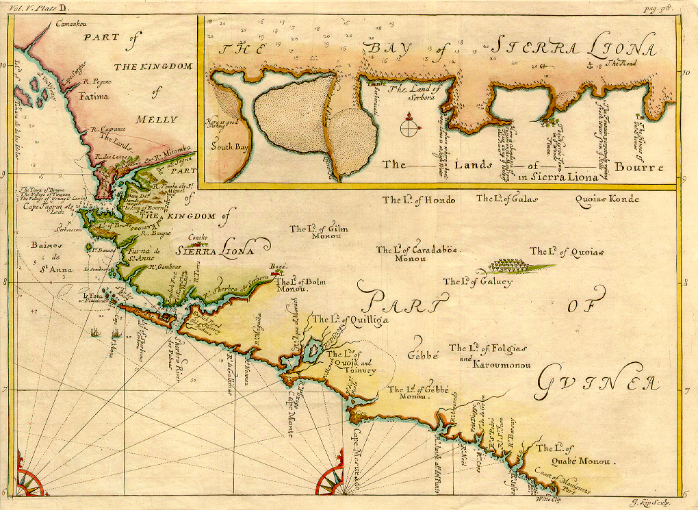 Coast of Guinea and Bay of Sierra Liona